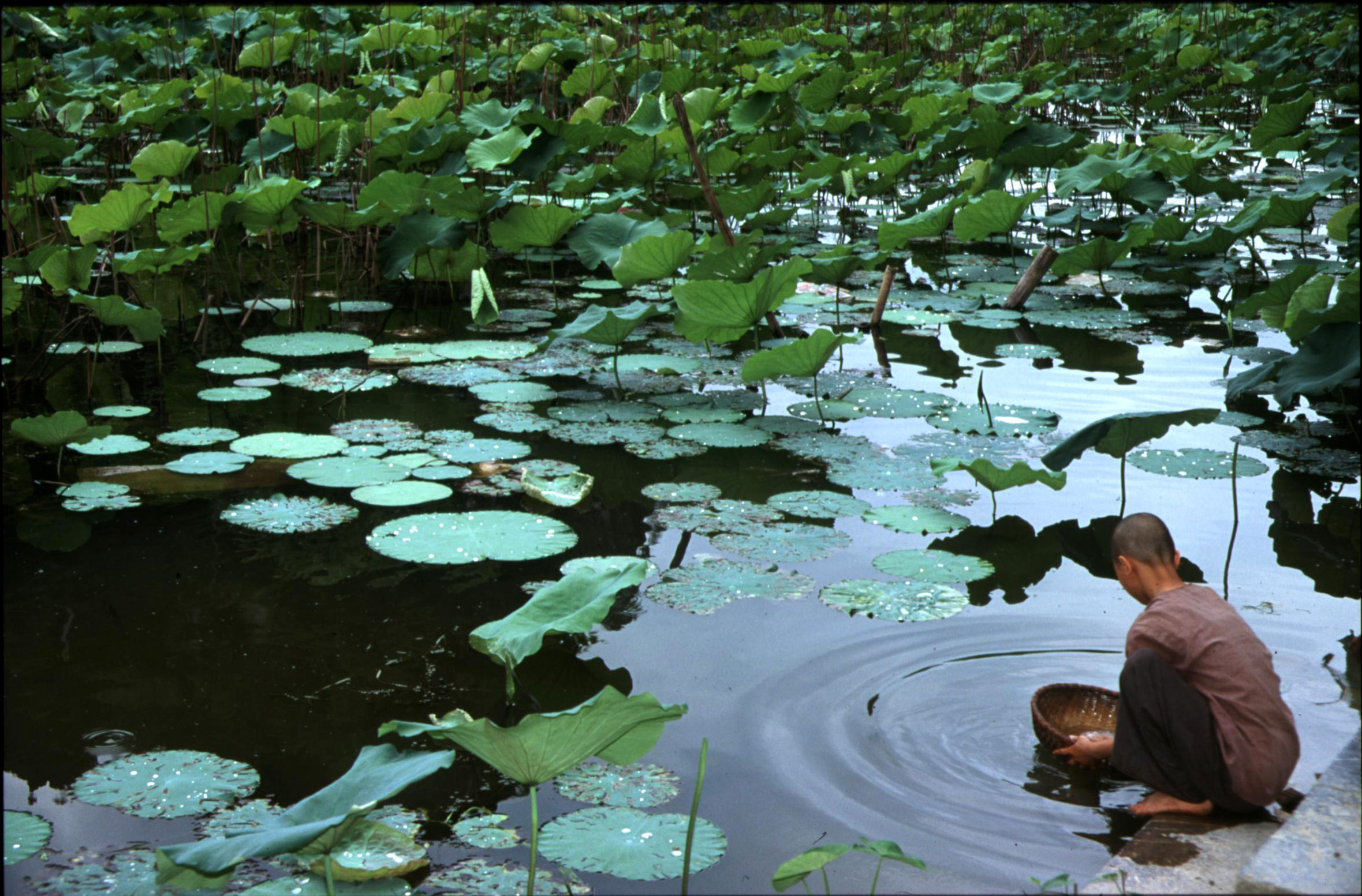 A scenery in Ninh Binh, a terrestrial Ha Long bay